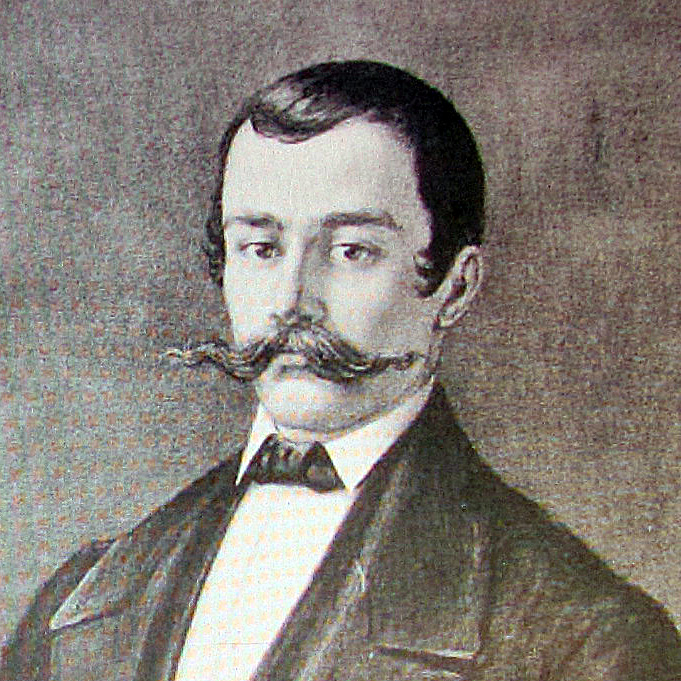 Ivan Jugovic, professor of Great School, cc1800